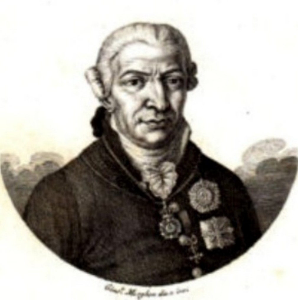 Engraving (by R. Morghen) of the marquis Orazio Antonio Cappelli (1742-1826), italian poet and diplomatic.